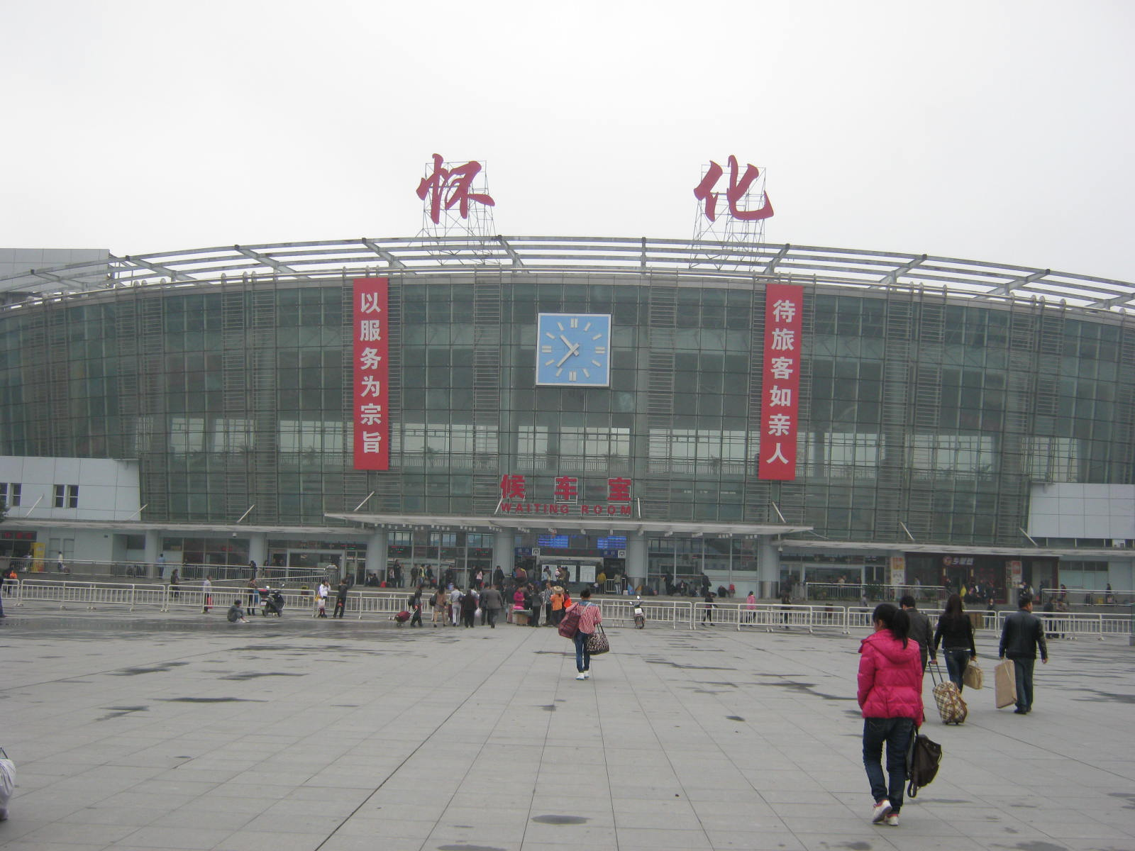 HuaiHua Rail Road Station